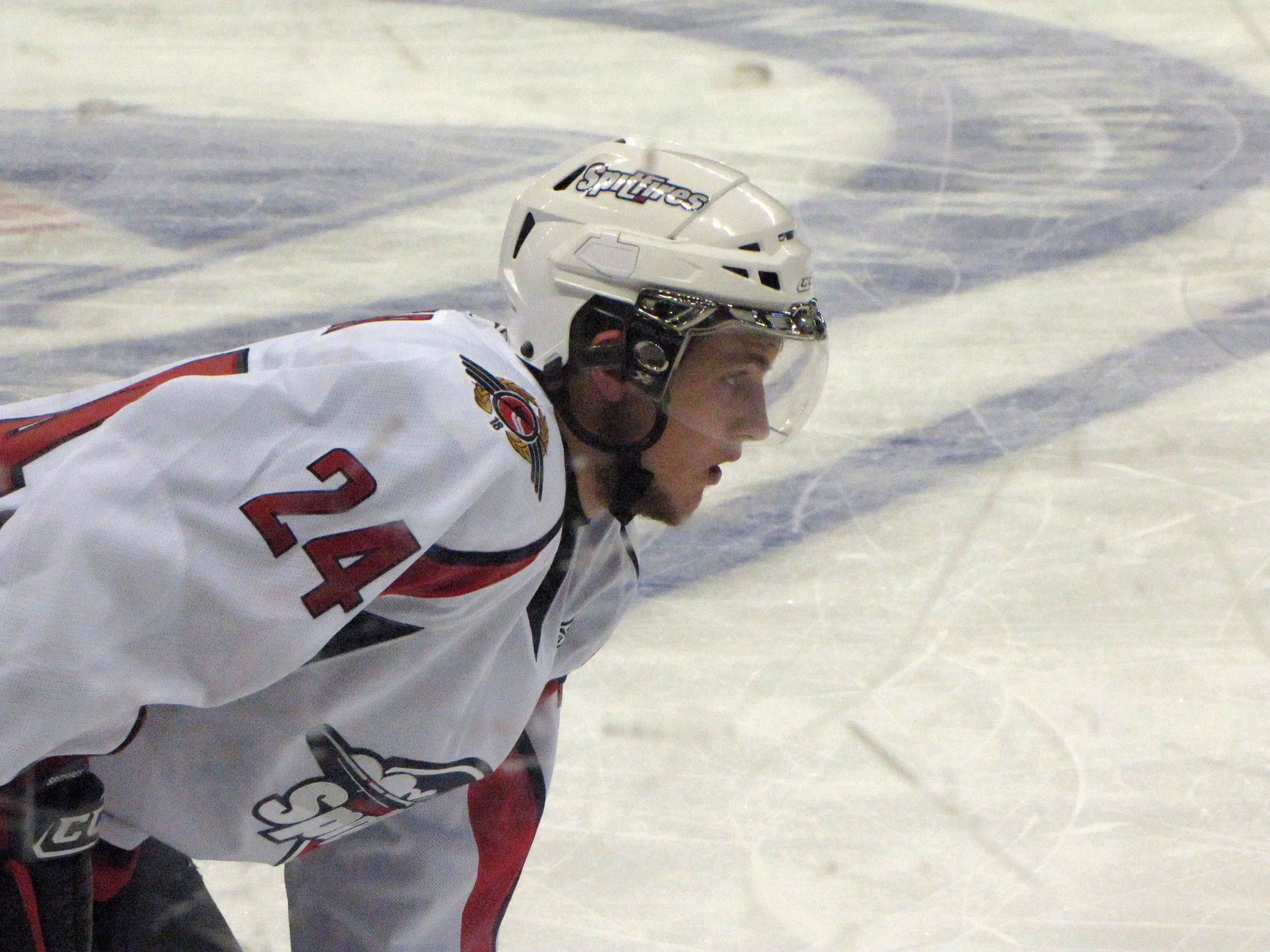 Cam Fowler during the game of Windsor Spitfires vs. Kitchener Rangers.